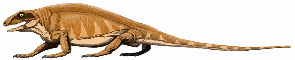 V. brevirostris.